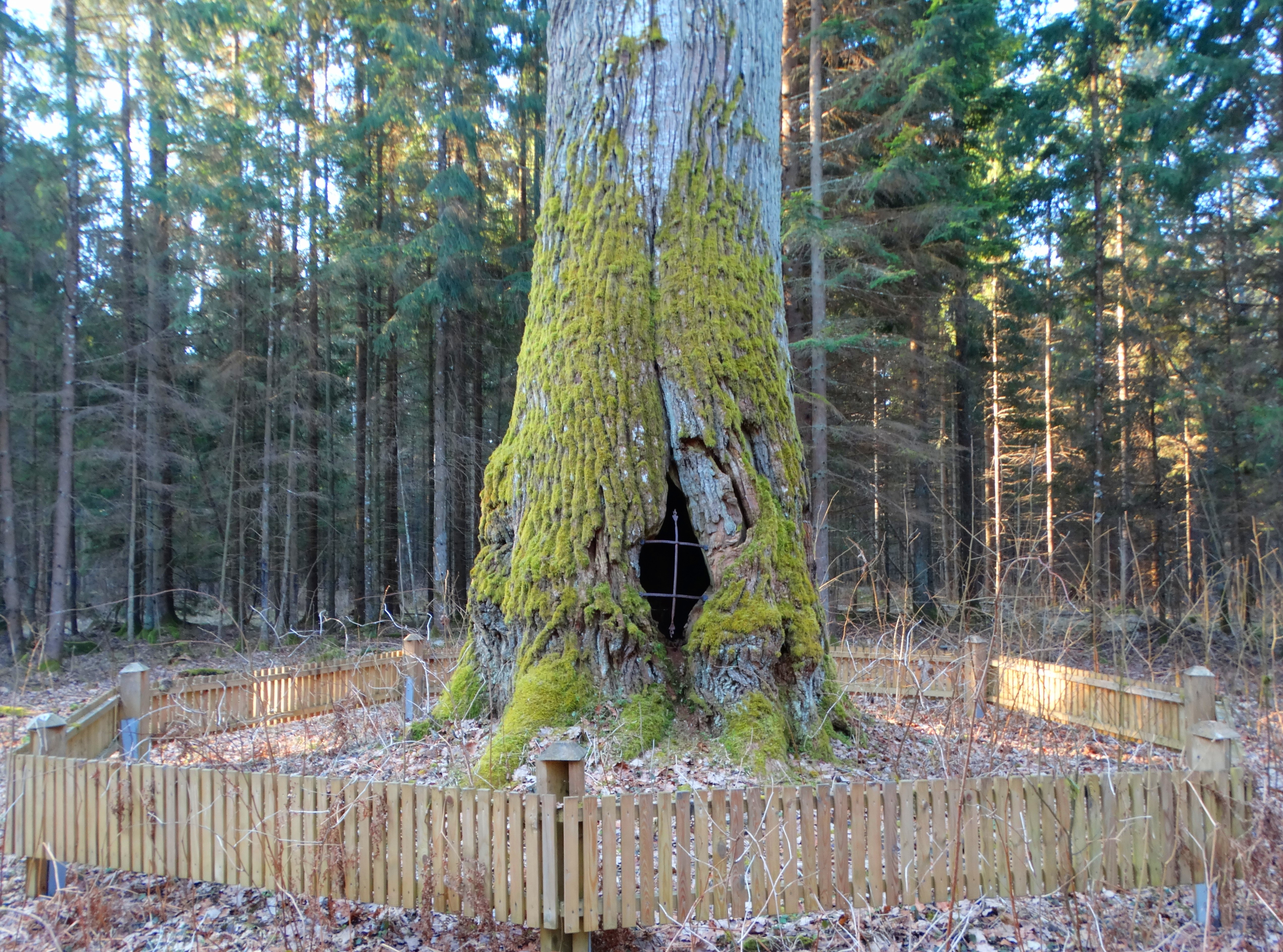 Oak, Paežeriai Forest, Šiauliai district, Lithuania